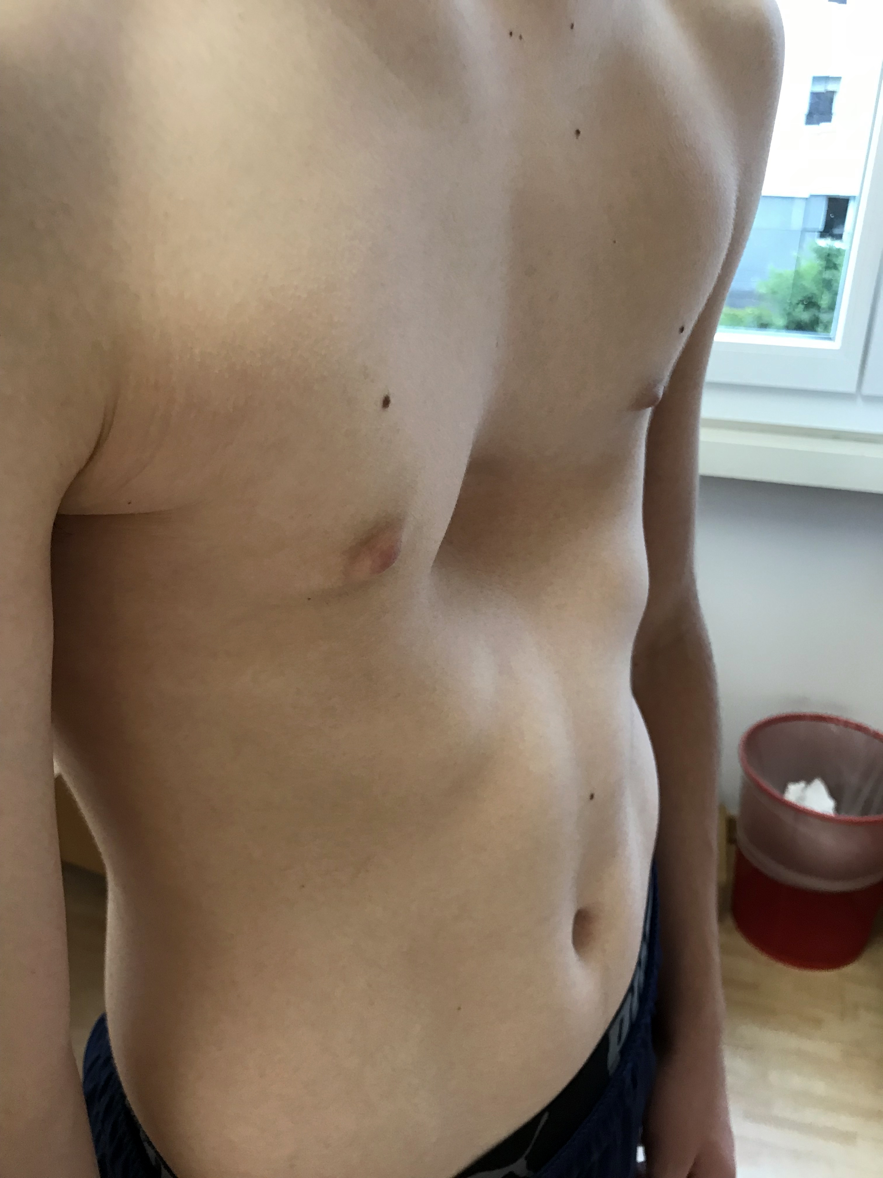 Pectus excavatum in a teenager.